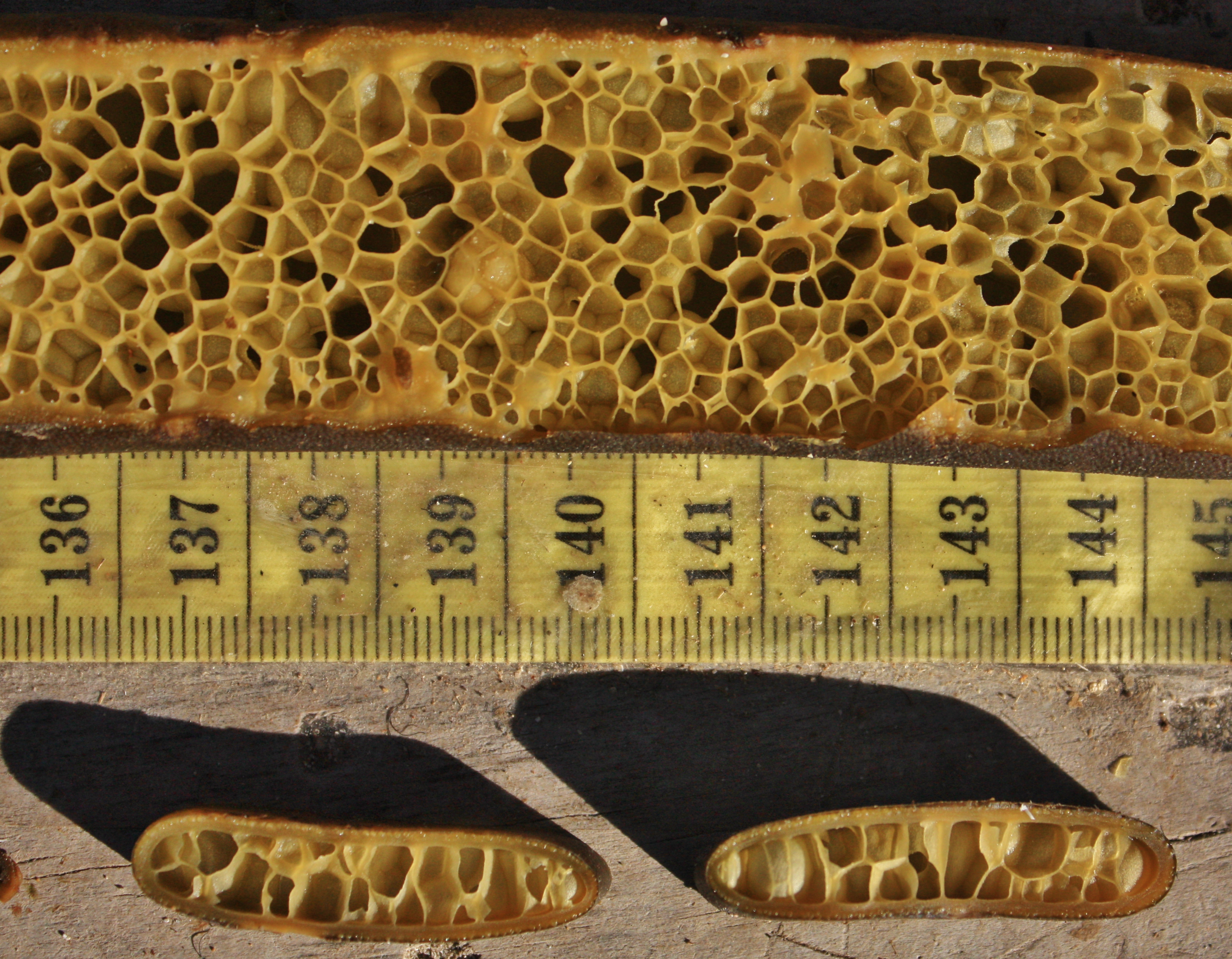 Longitudinal and transversal cuts in fronds of Durvillaea antarctica, showing the air-filled honeycomb structures that give the alga its buoyancy. Specimen from Pichicuy, Chile.